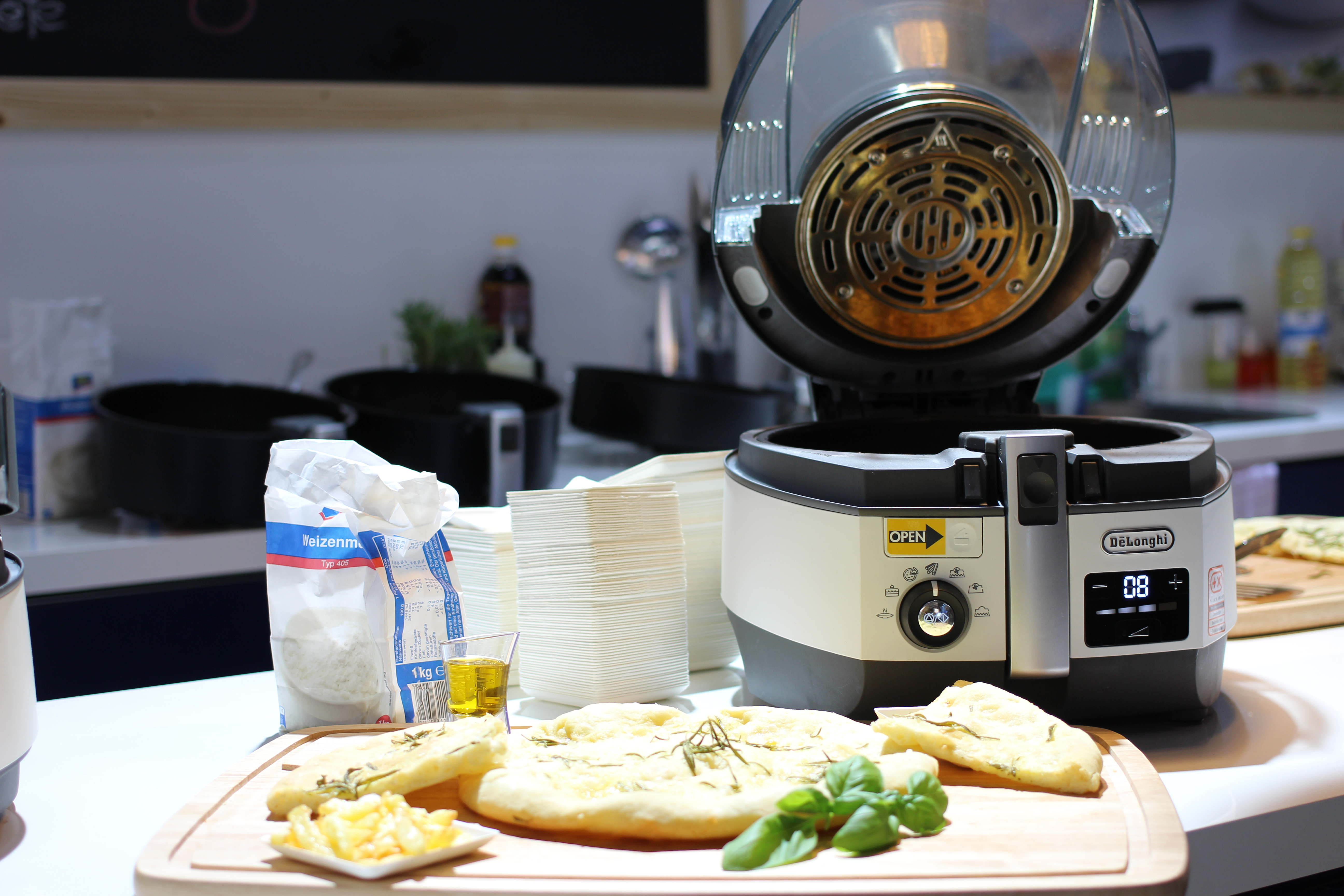 De'Longhi Multifry